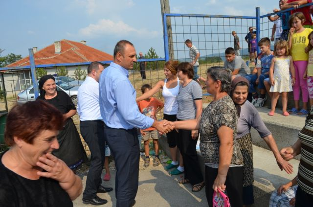 Dolazak Podpredsednika Vlade Kosova u Pancelu selu u opstini Ranilug